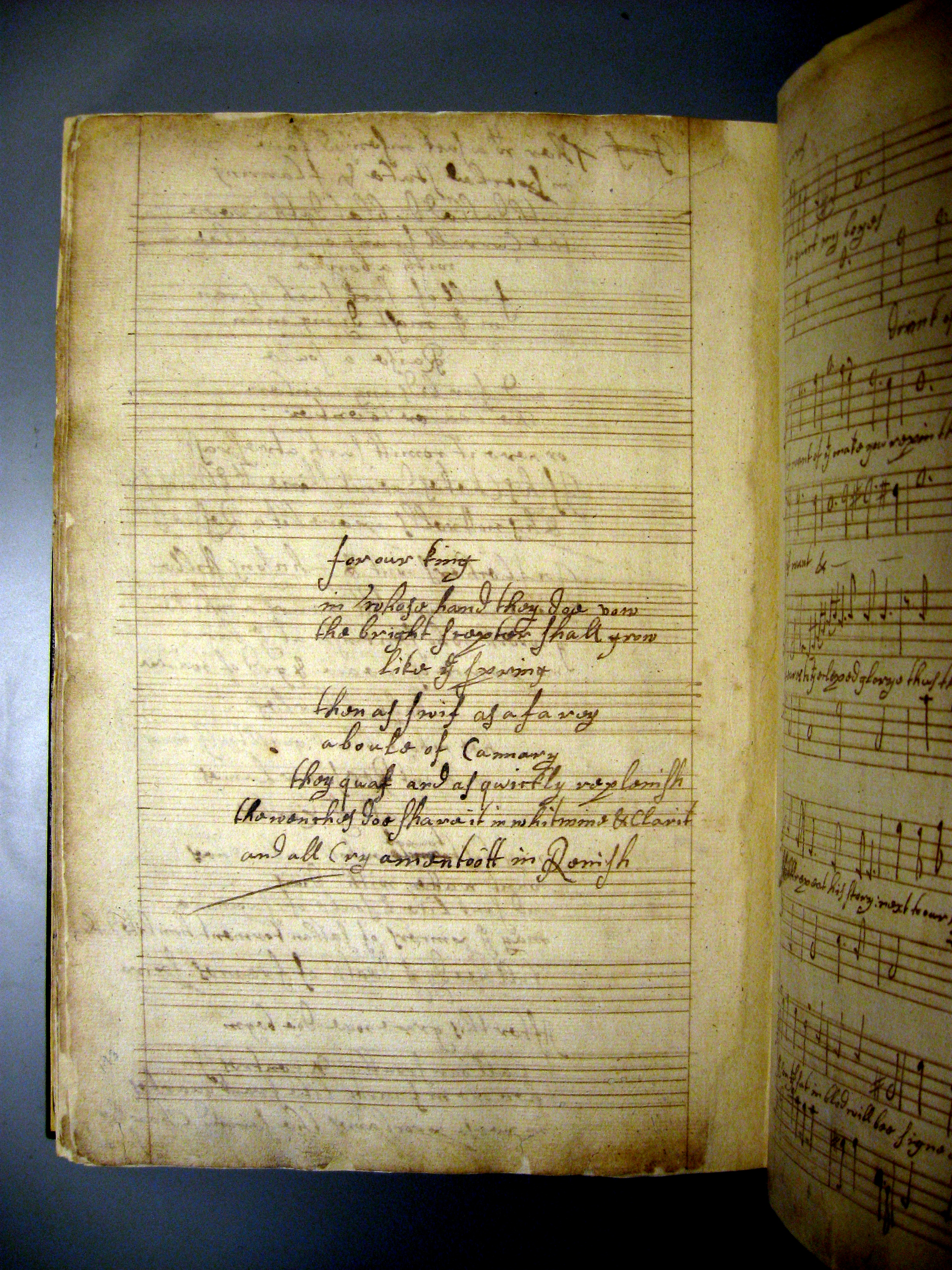 Folio 143 verso, showing additional royalist lyrics from the song "Joyne thy inameld Checke to myne" from Drexel 4041, a music manuscript in the Music Division of the New York Public Library